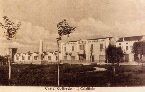 Castel Goffredo, NOEMI factory socks.